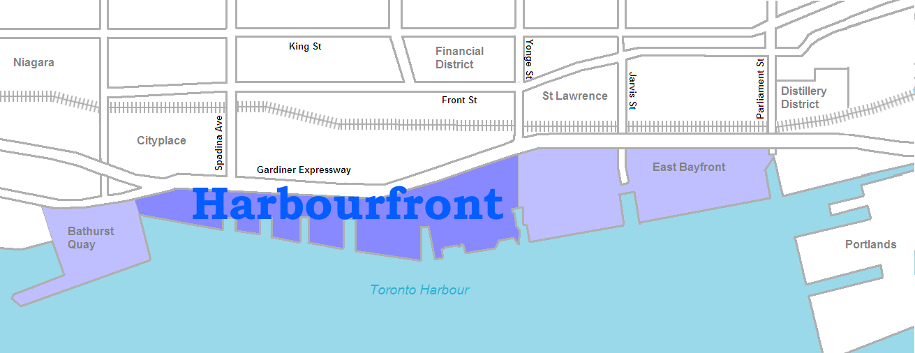 map of Harbourfront